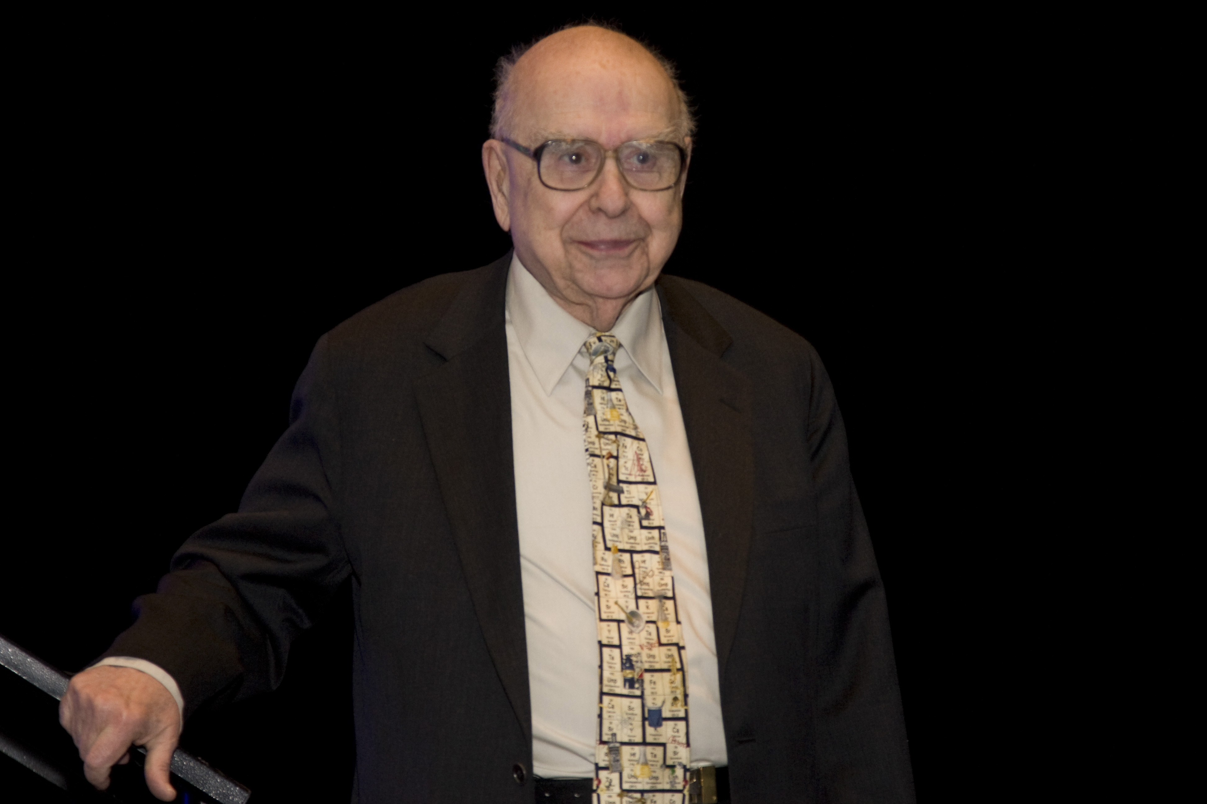 Photograph of Alfred R. Bader (* 28. April 1924 in Wien), recipient of the 2009 Pittcon Heritage Award, jointly sponsored by the Pittsburgh Conference on Analytical Chemistry and Applied Spectroscopy (Pittcon) and the Chemical Heritage Foundation.